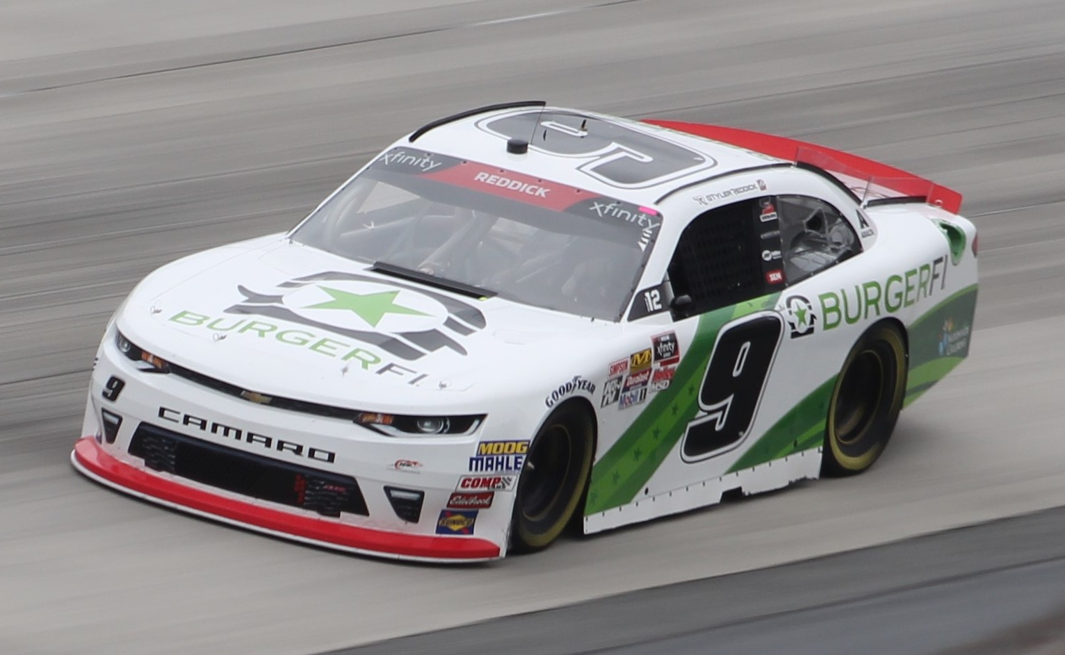 Tyler Reddick's No. 9 BurgerFi Chevrolet at Dover International Speedway in 2018